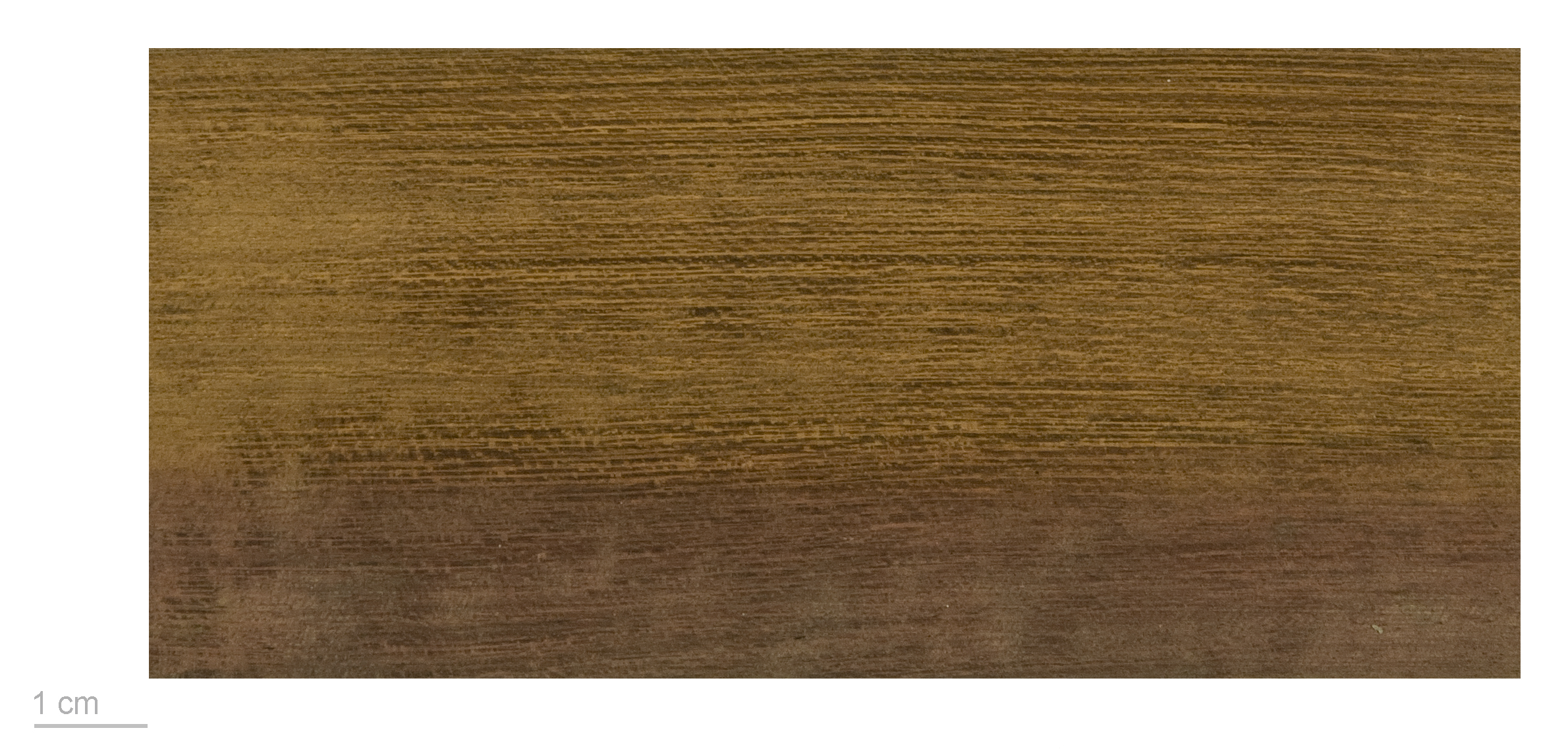 Purpleheart, Amaranth , wood